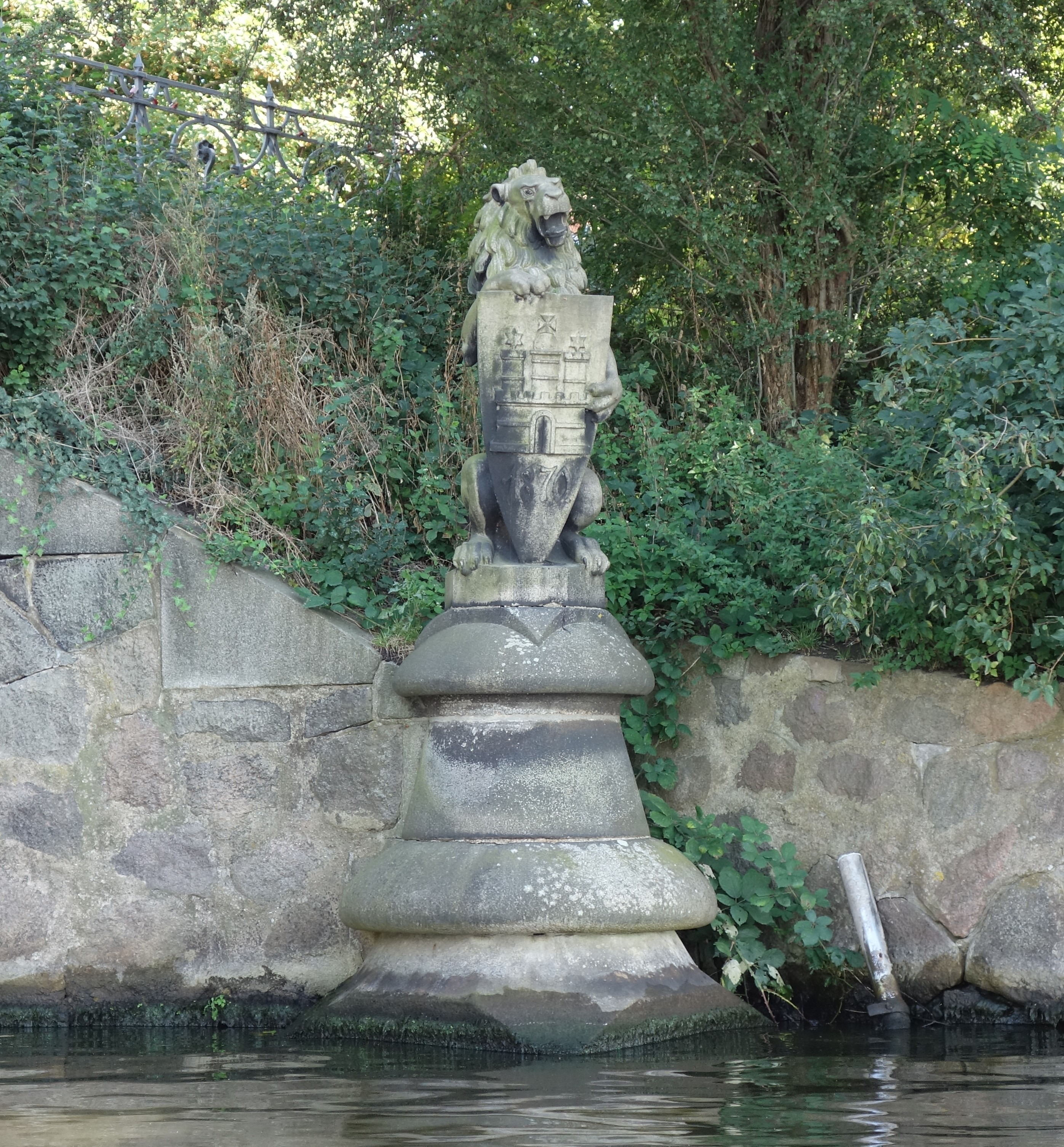 Lion rampant near the Feenteichbrücke ("bridge at the pond of fairies") in Hamburg, GermanyThis is a photograph of an architectural monument.